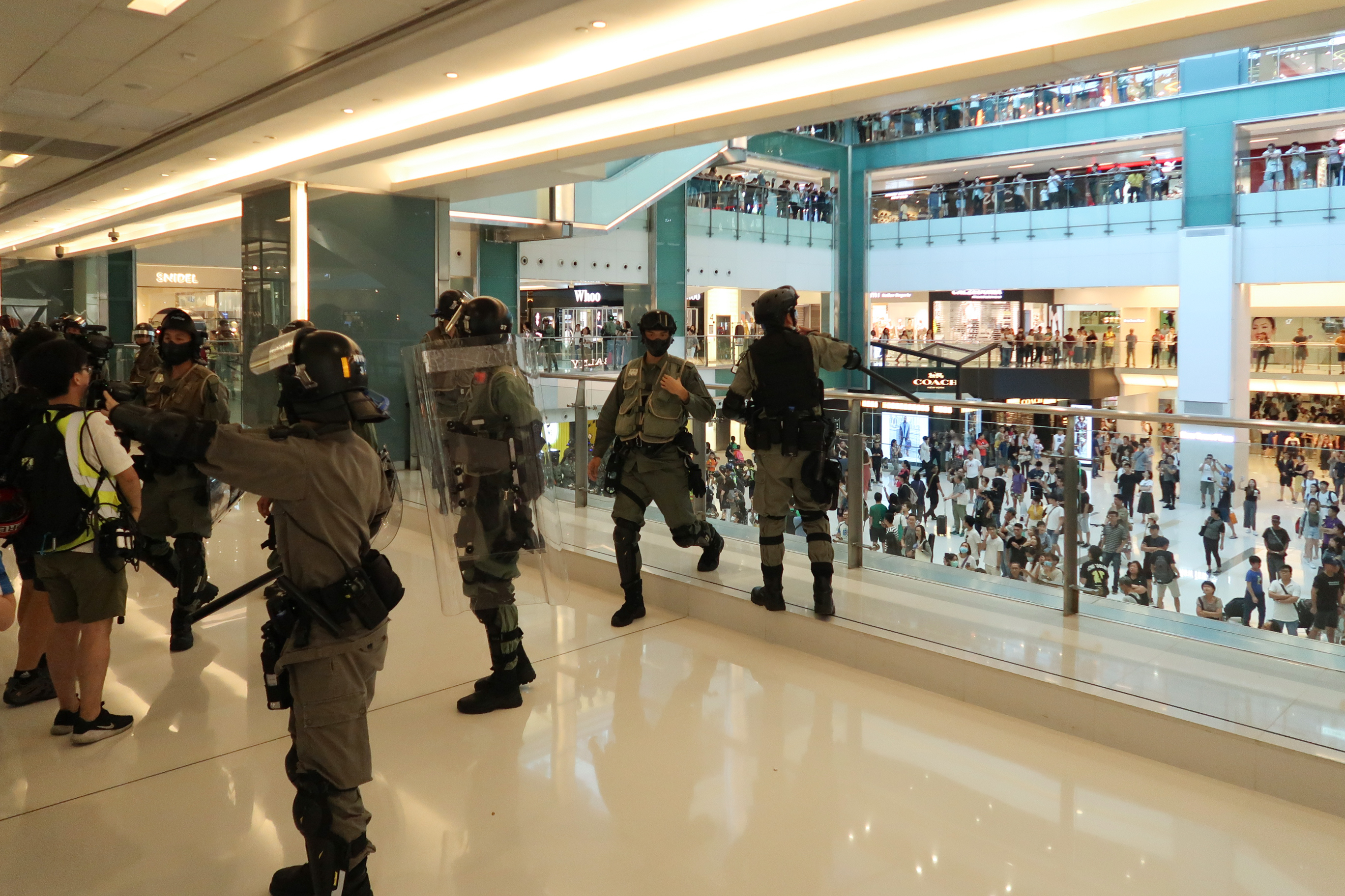 Police force in New Town Plaza Level 4